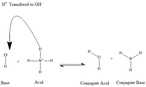 Reaction of NH4 to NH3